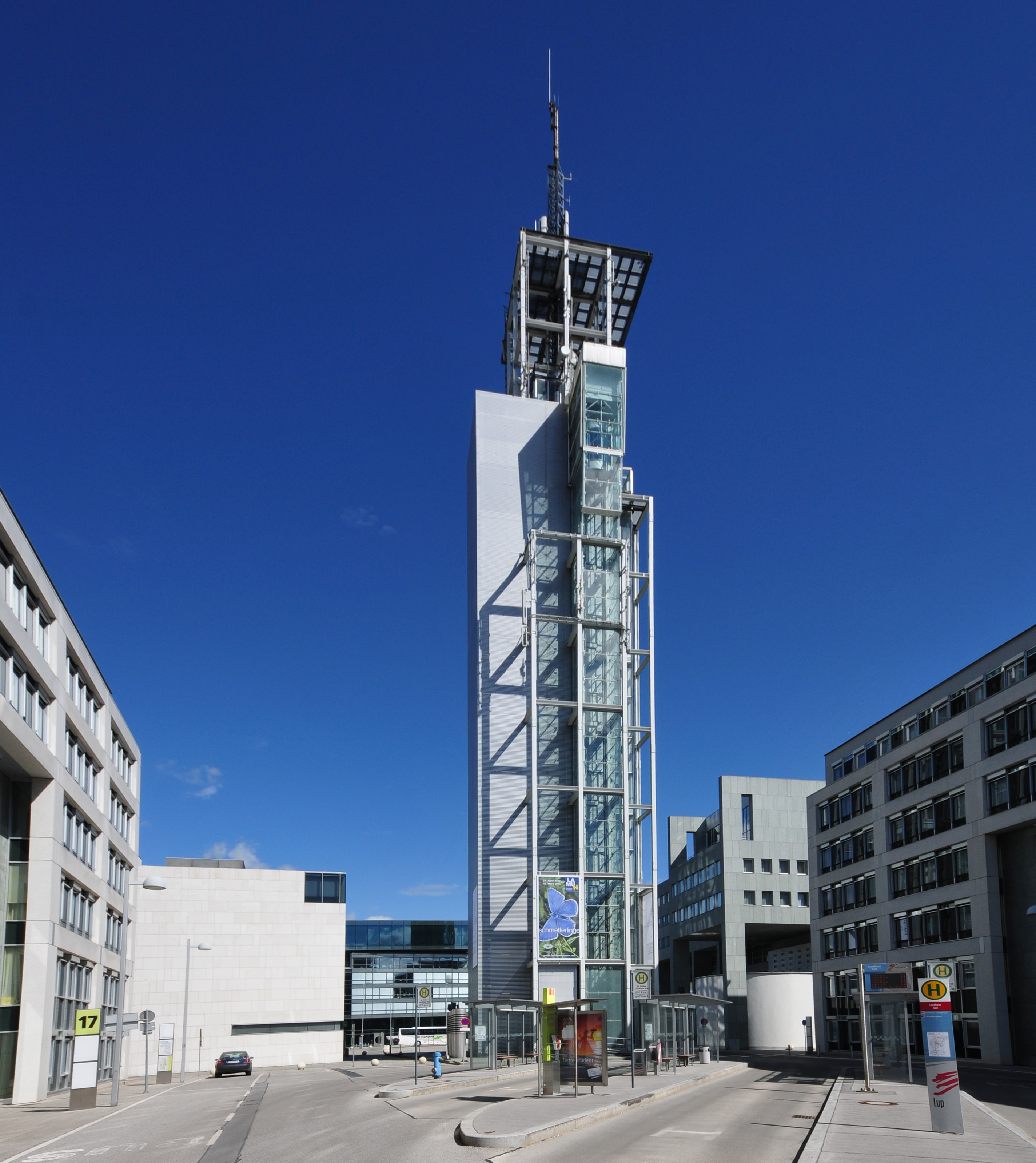 St. Pölten, Austria, Landhausviertel Fotowanderung St. Pölten 13. April 2013 in St. Pölten, Niederösterreich 50mm • Allgemeines • Bahnhof • Domplatz • Fahrräder • Landhausviertel • Rathausplatz